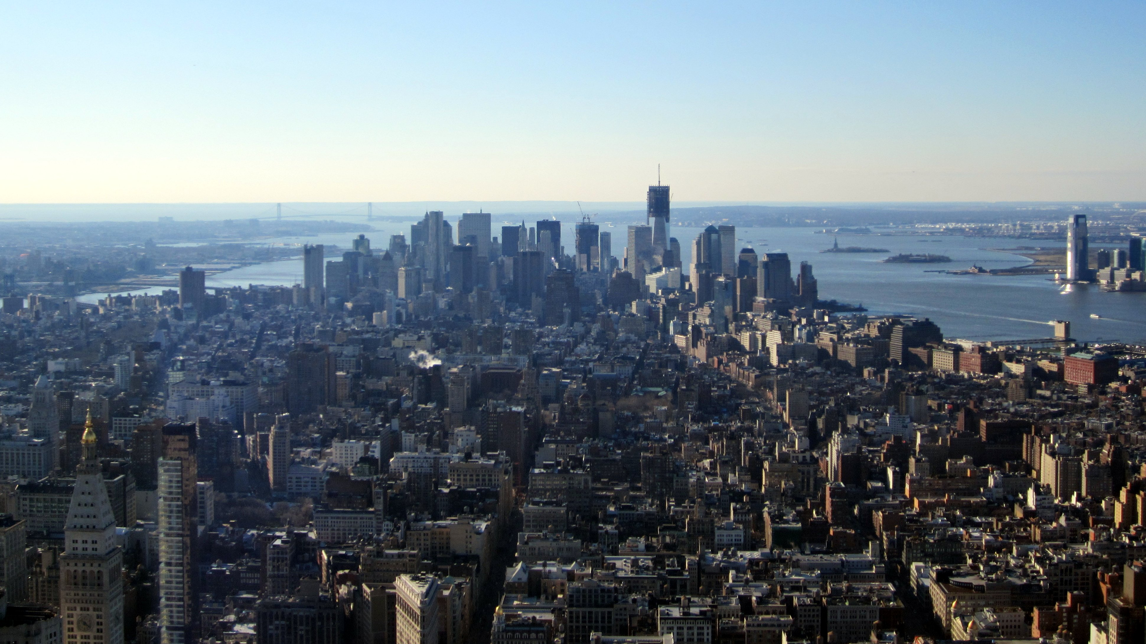 The new World Trade Center towering over the Lower Manhattan skyline. From the Empire State Building, December 2011.